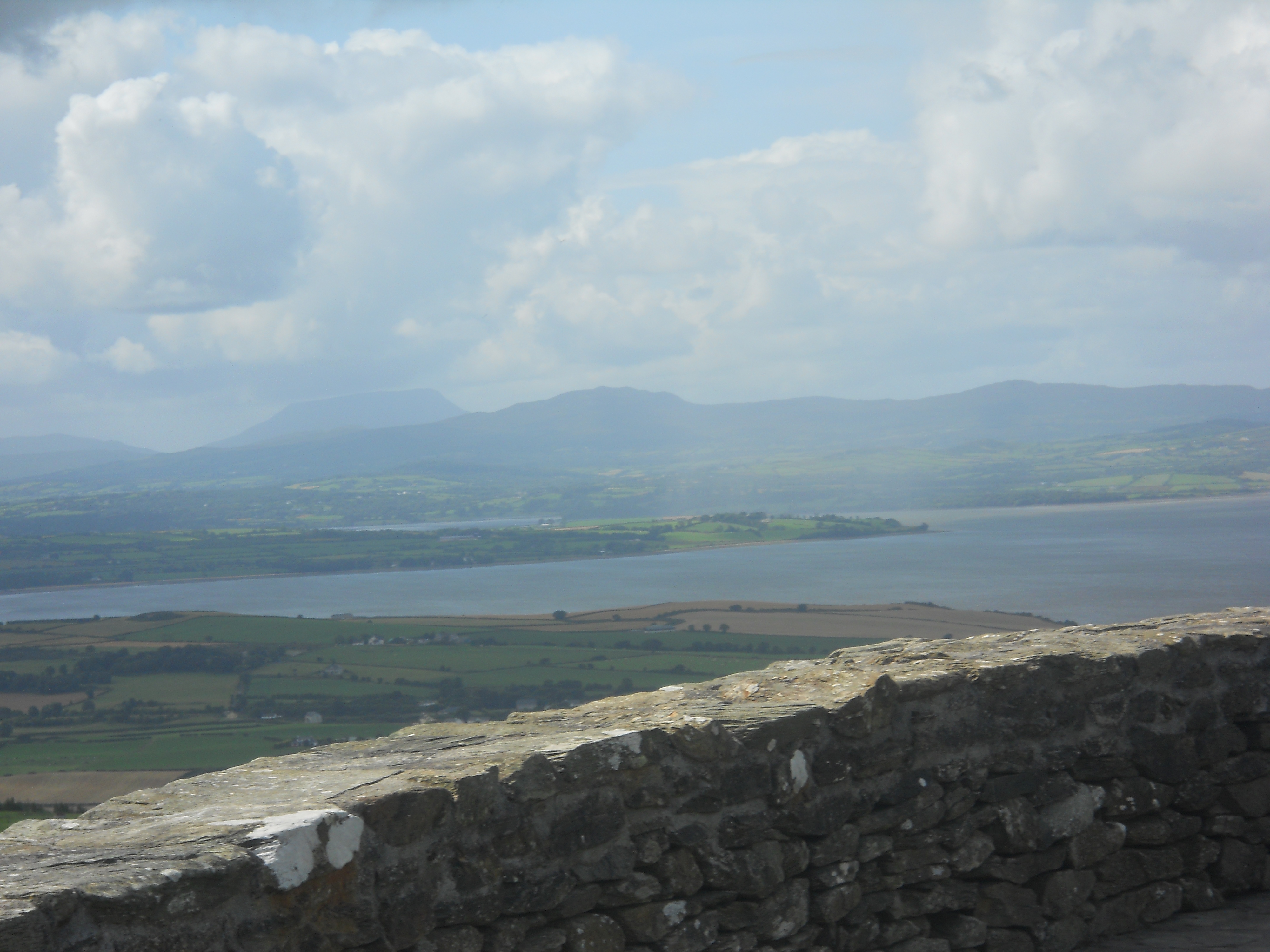 View from Grianan of Aileach